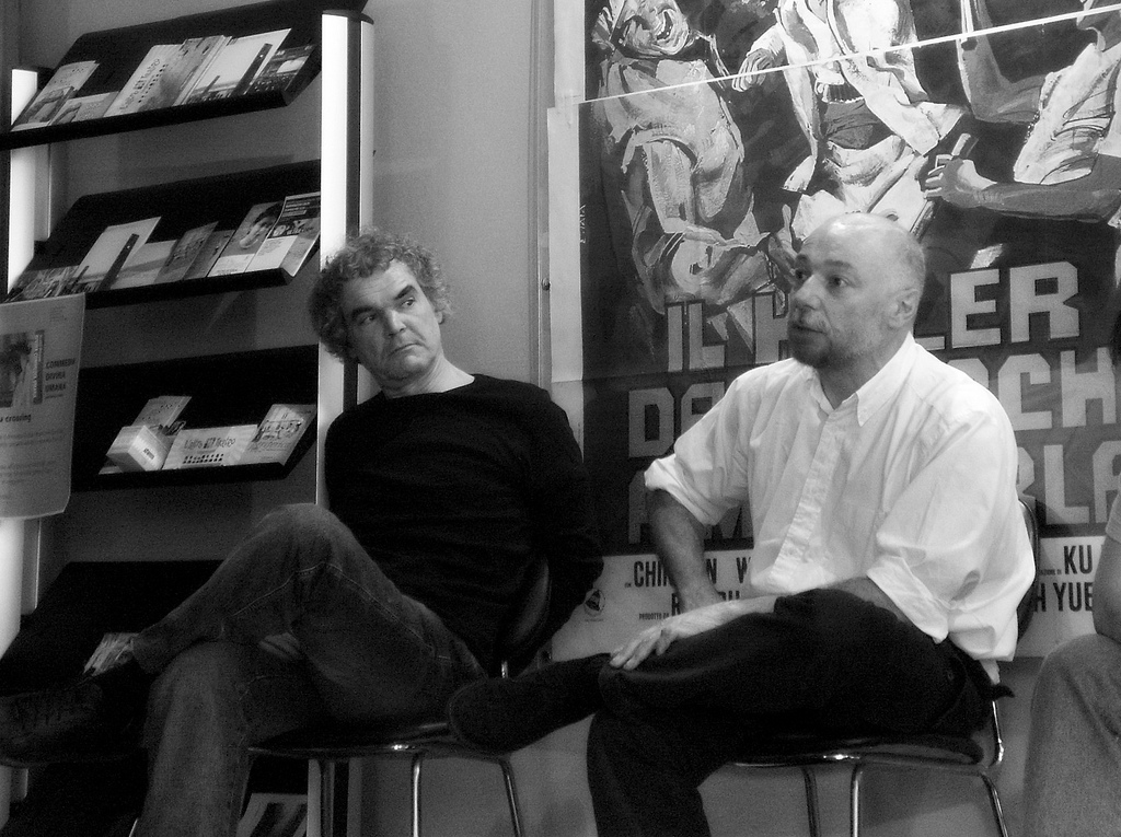 Patrik Ouředník and Paolo Nori in Reggio Emilia.